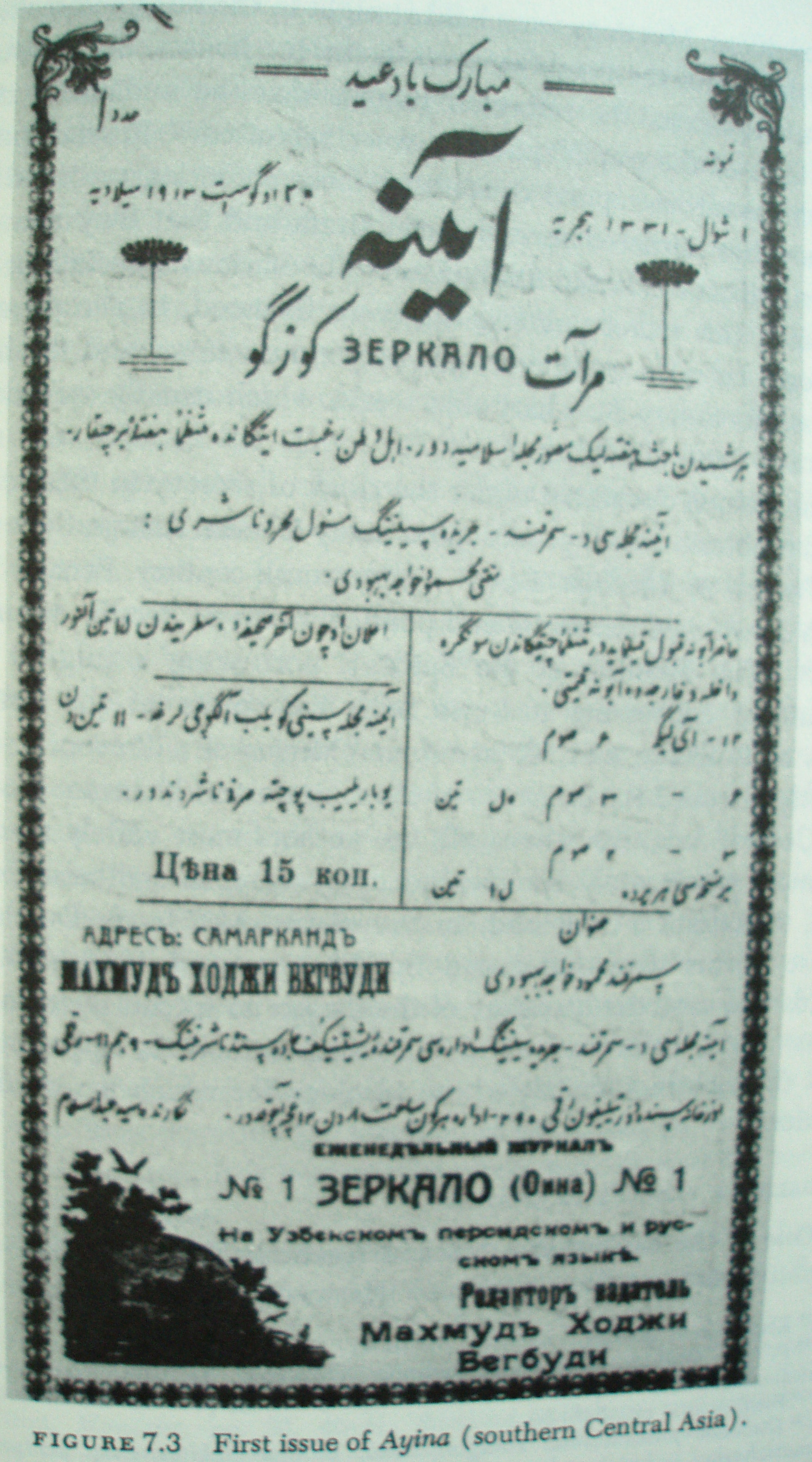 Cover of the first edition of Ayina, a newspaper published by Madhmukhodja Behbudiy